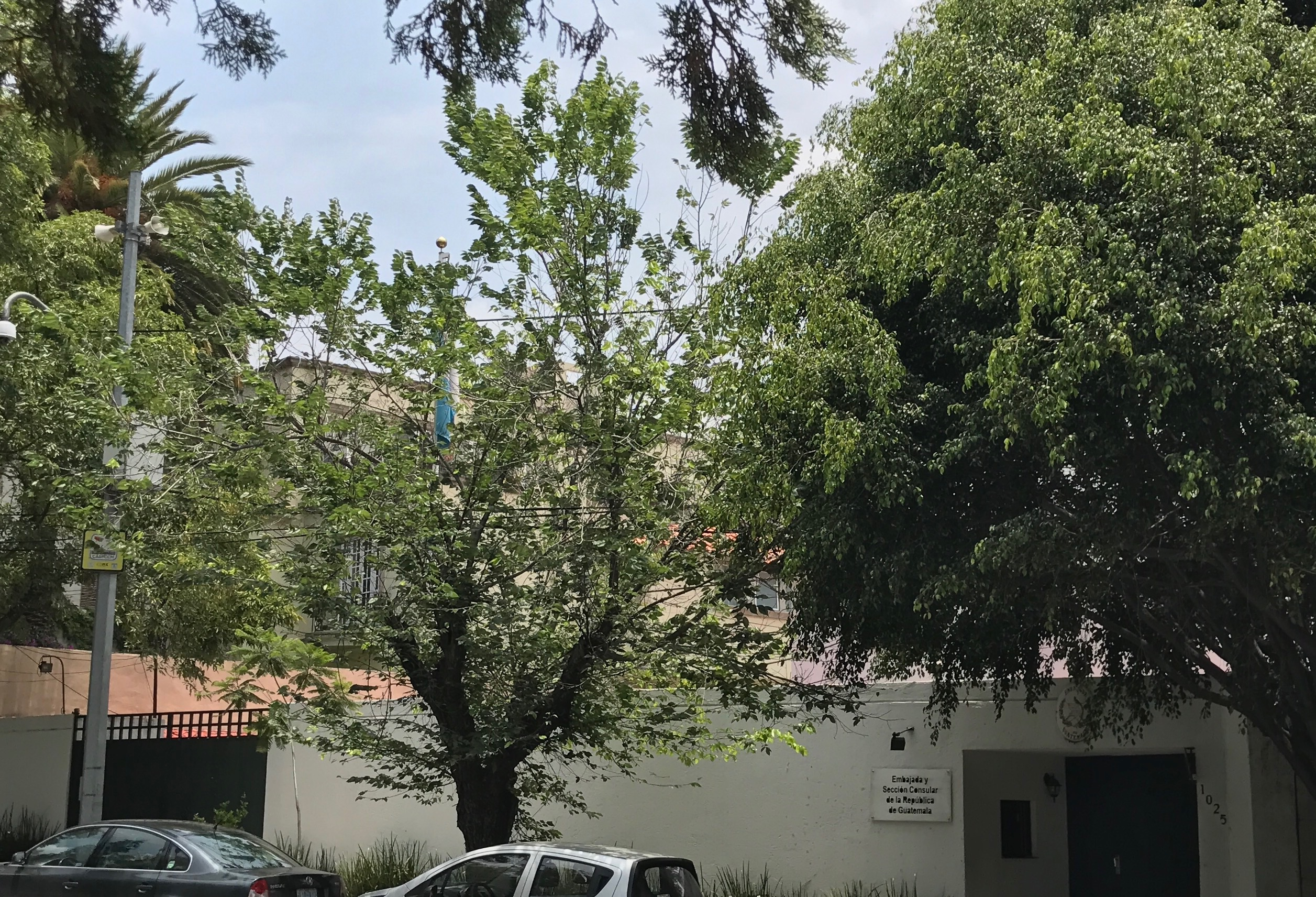 Embassy of Guatemala in Mexico City